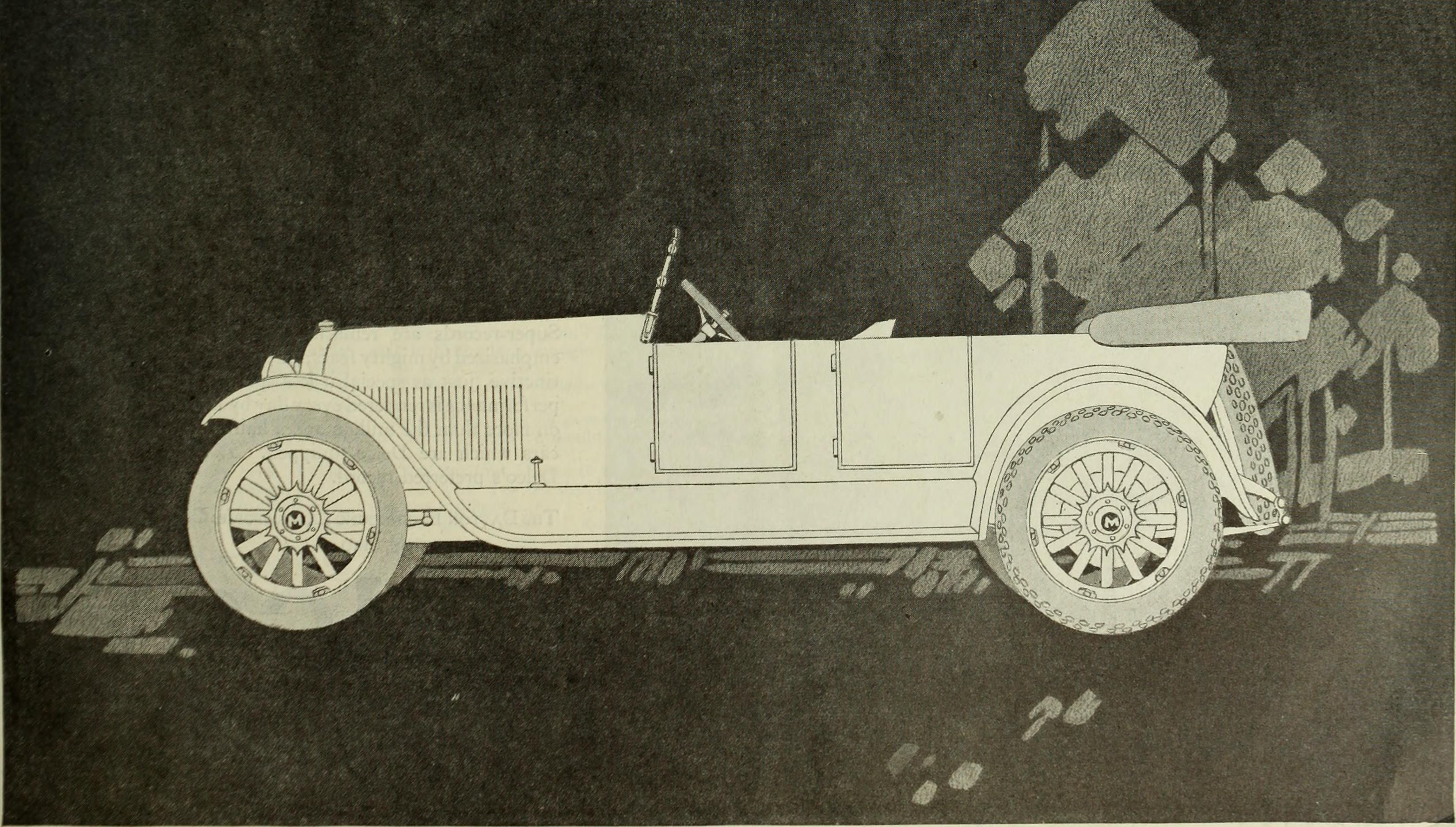 Title: The Saturday evening post Year: 1839 (1830s) Authors: Subjects: Publisher: Philadelphia : G. Graham Text Appearing Before Image: hen the world was at peace. On the third day of his stay with me hetired of his confinement in this old Turkishhouse, tired of reading and talking, anddesired feverishly to go out into the streetsof Pera and to call at the restaurant whereVera Ivanova was working as a waitress. She is the only soul in the world whounderstands me, he said. She under-stands because she loves. It is wonderful,that! She does not shrink from me, but all(Continued on Page 161) THE SATURDAY EVENING POST 159 Maibohm Detours—are mere incidentsto Maibohm. This Six whichskims along so smoothly andquietly over the pavements is averitable demon of power in therough places. Every ounce ofits husky valve-in-head powereagerly awaits an opportunityto conquer a hub-deep mudroad or a steep hill. Whetherparked or in action, you can-not resist a second glance atthe smart lines and old schoolcoachwork of Maibohm—thelightest good six made. $1695 f. q. b. Factory Maibohm, Sandusky, Ohio Maker* of Fine Vehicles Since 1888 Text Appearing After Image: 160 THE SATURDAY EVENING POST November 6, /920